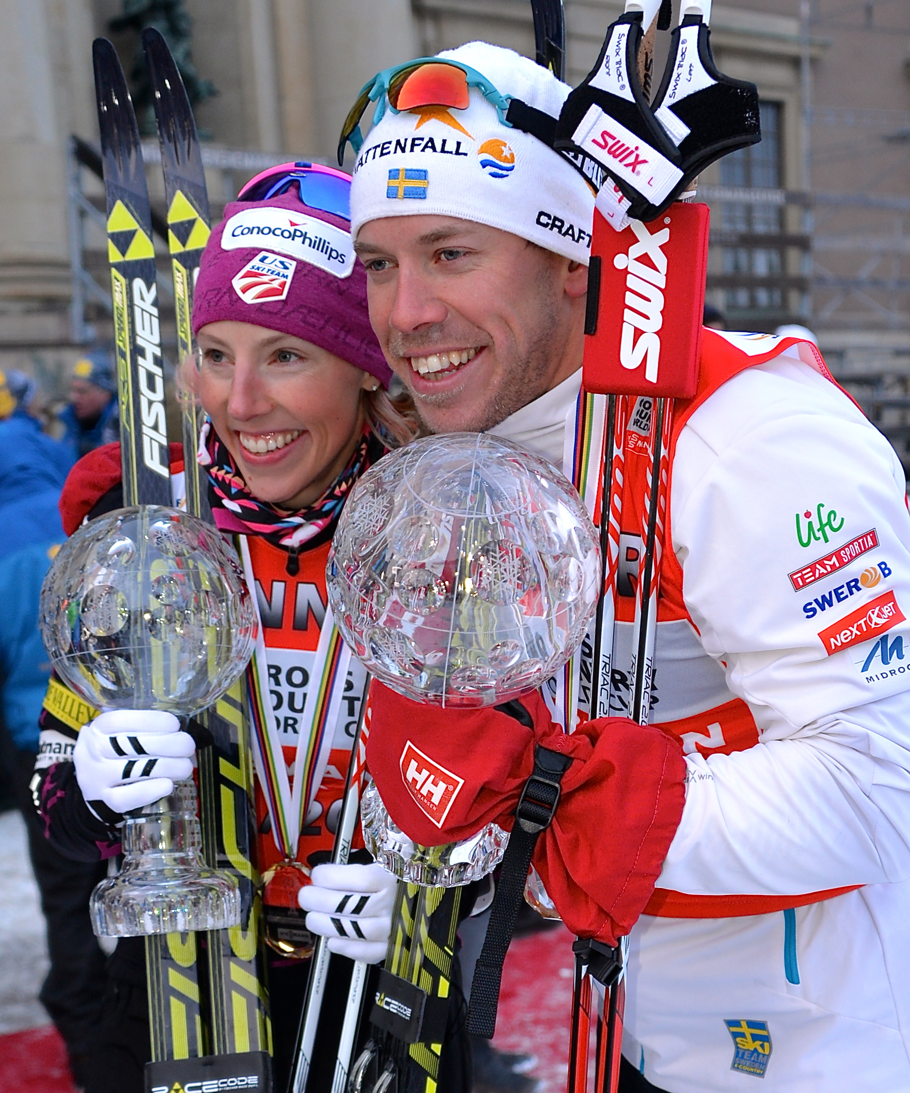 Sprint winners in the World Cup 2012-13 at the Royal Palace Sprint, part of the FIS World Cup 2012/2013, in Stockholm on March 20, 2013.